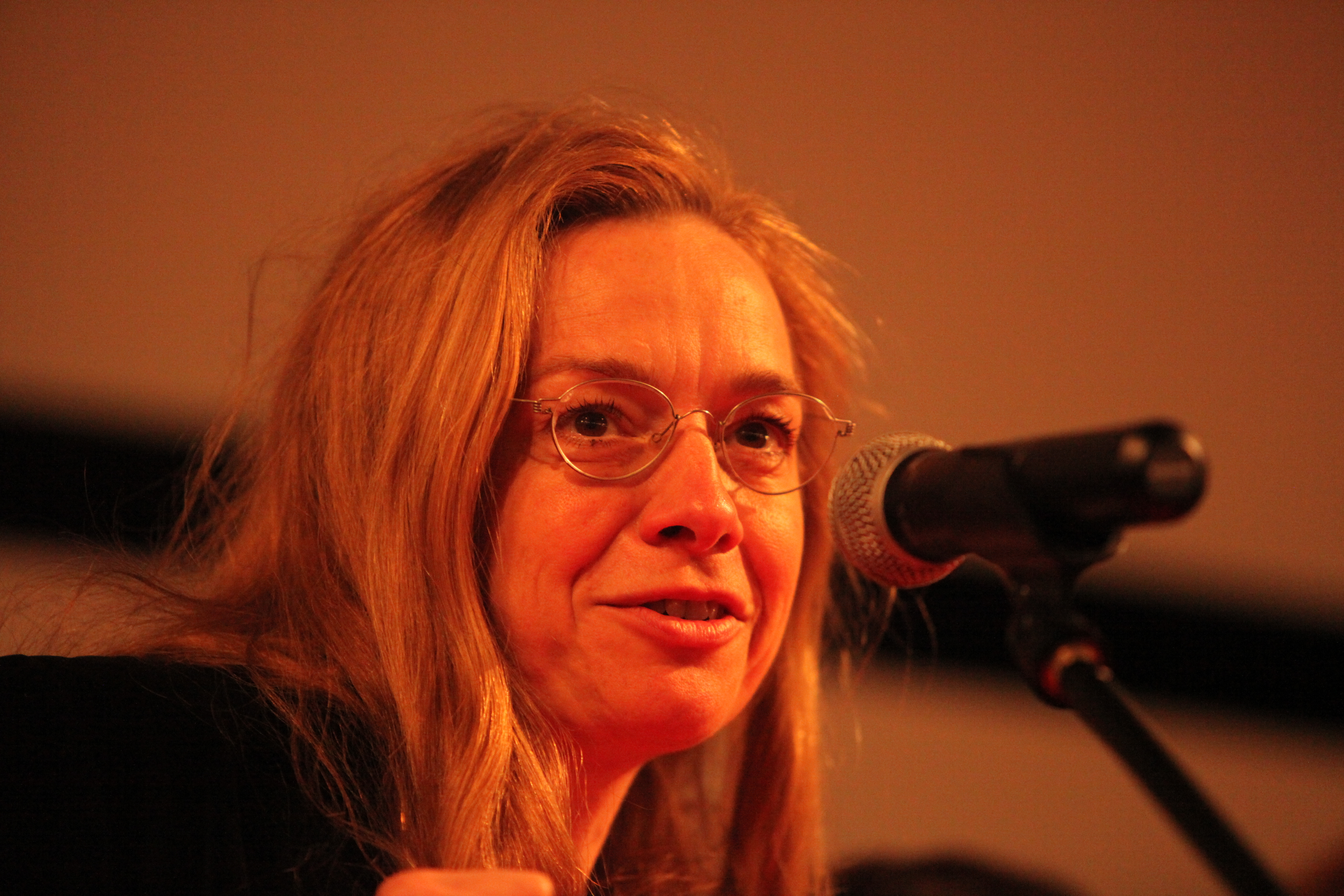 Czech film director Andrea Sedláčková at the 49th International Film Festival in Karlovy Vary, Czech Republic, 2014